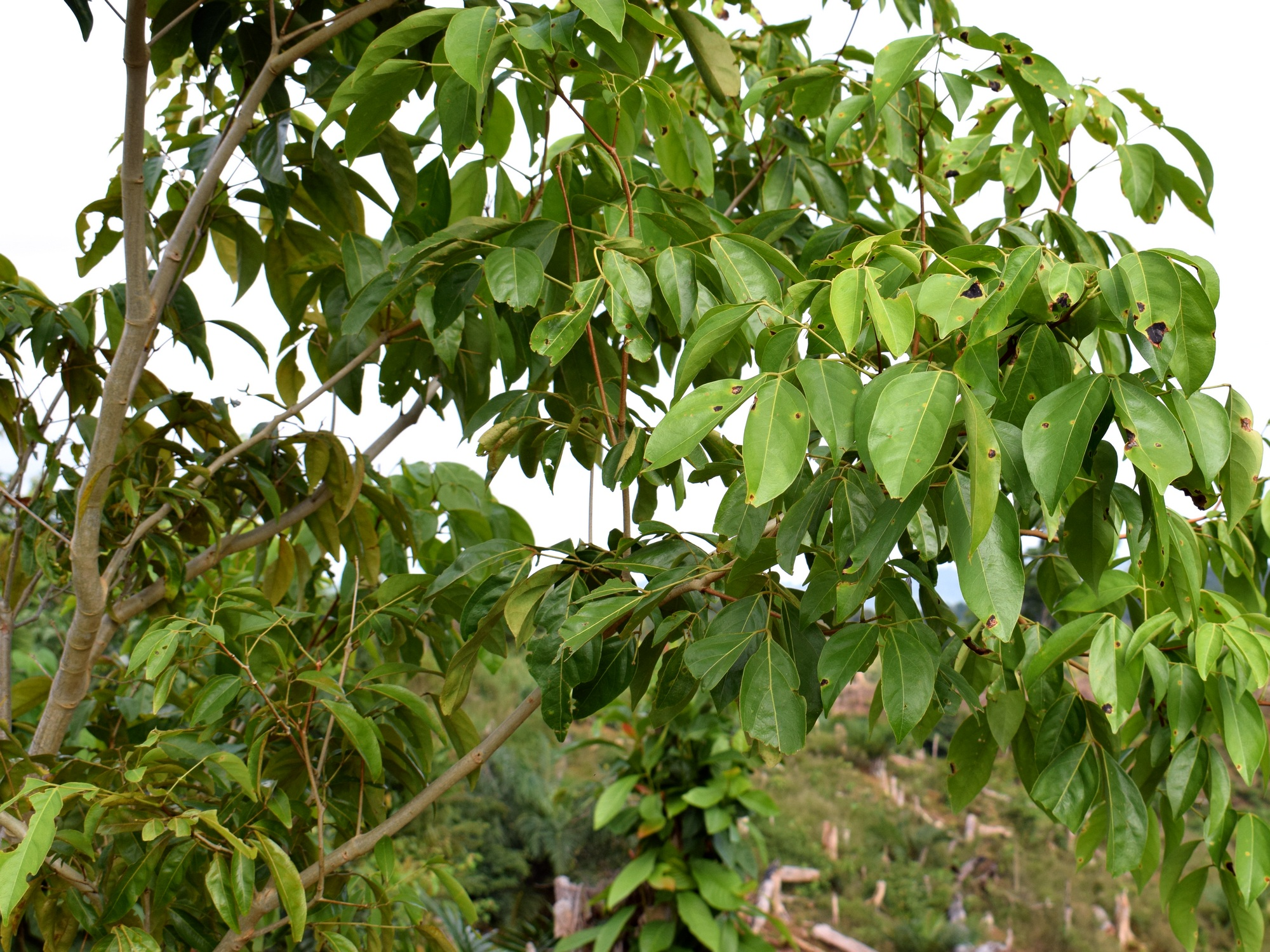 Kabau (Archidendron bubalinum), twigs and leaves of a sapling. Bengkulu, Sumatra.